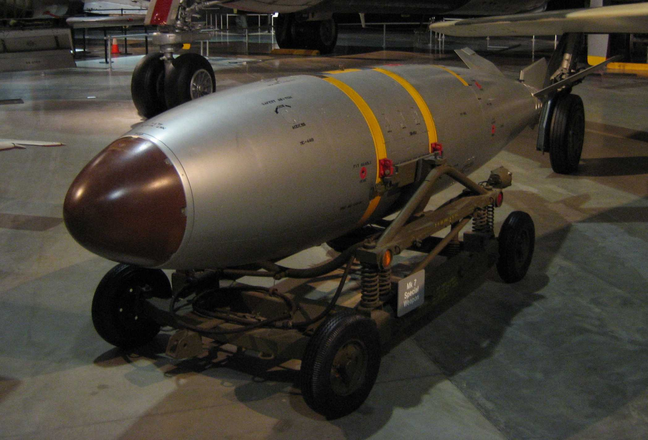 A Mark 7 Nuclear Bomb at the National Museum of the United States Air Force in Dayton, Ohio (USA).